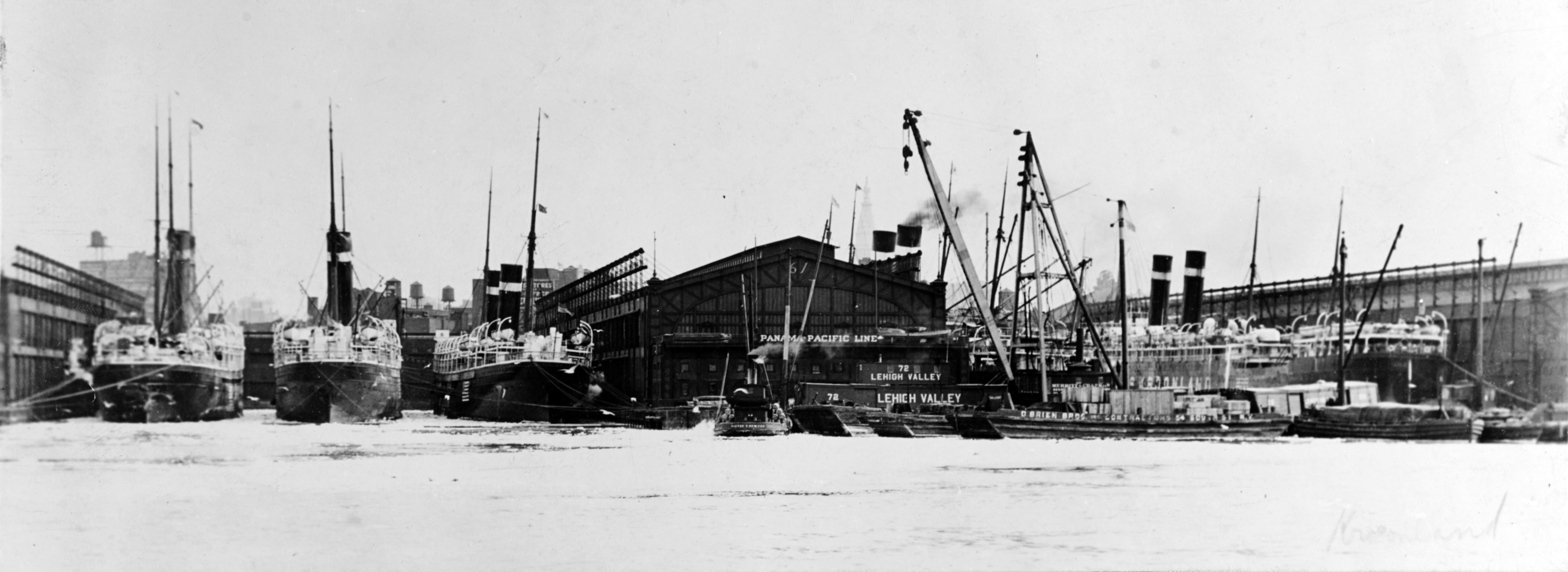 International Mercantile Marine Company's Chelsea Piers, North River, New York Five passenger steamers tied up at the Chelsea Piers, circa early 1917, before the United States entered World War I. SS Kroonland is at right, with her name painted on her side. She later became USS Kroonland (ID # 1541). Tug Victor J. Newton is in the center of the image, with her stern toward the camera. Courtesy of the International Mercantile Marine Company.